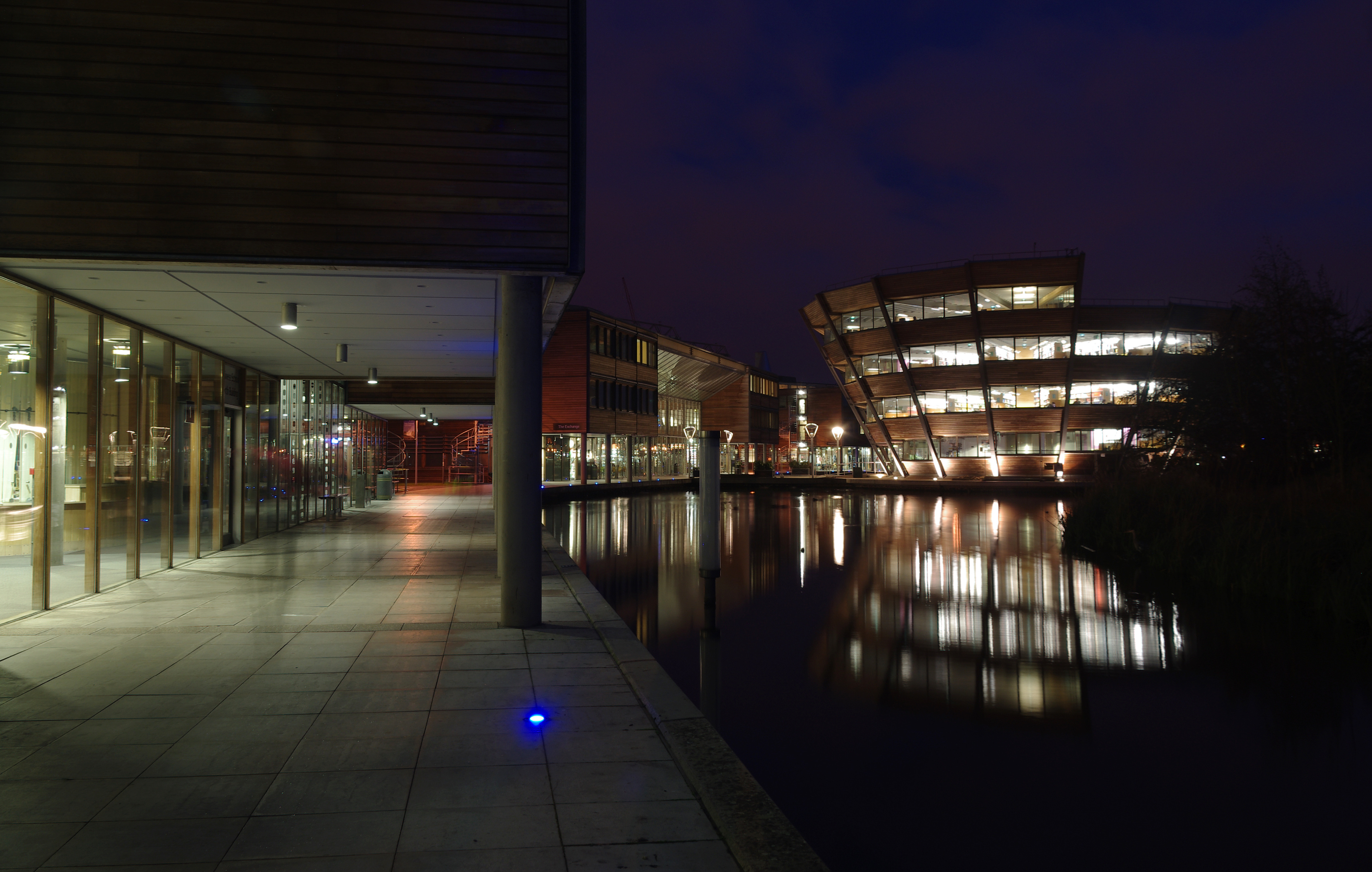 Motion blurred people walking on Jubilee Campus, with the Sir Harry and Lady Djanogly Learning Resource Centre in the background.